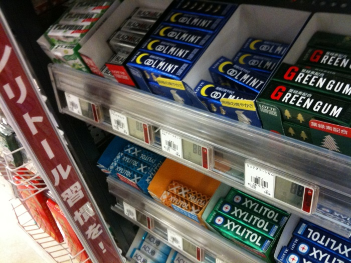 Posted via web from Currawong's posterous